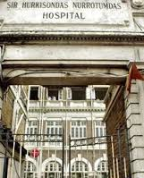 one of the oldest hospitals in the city of Bombay